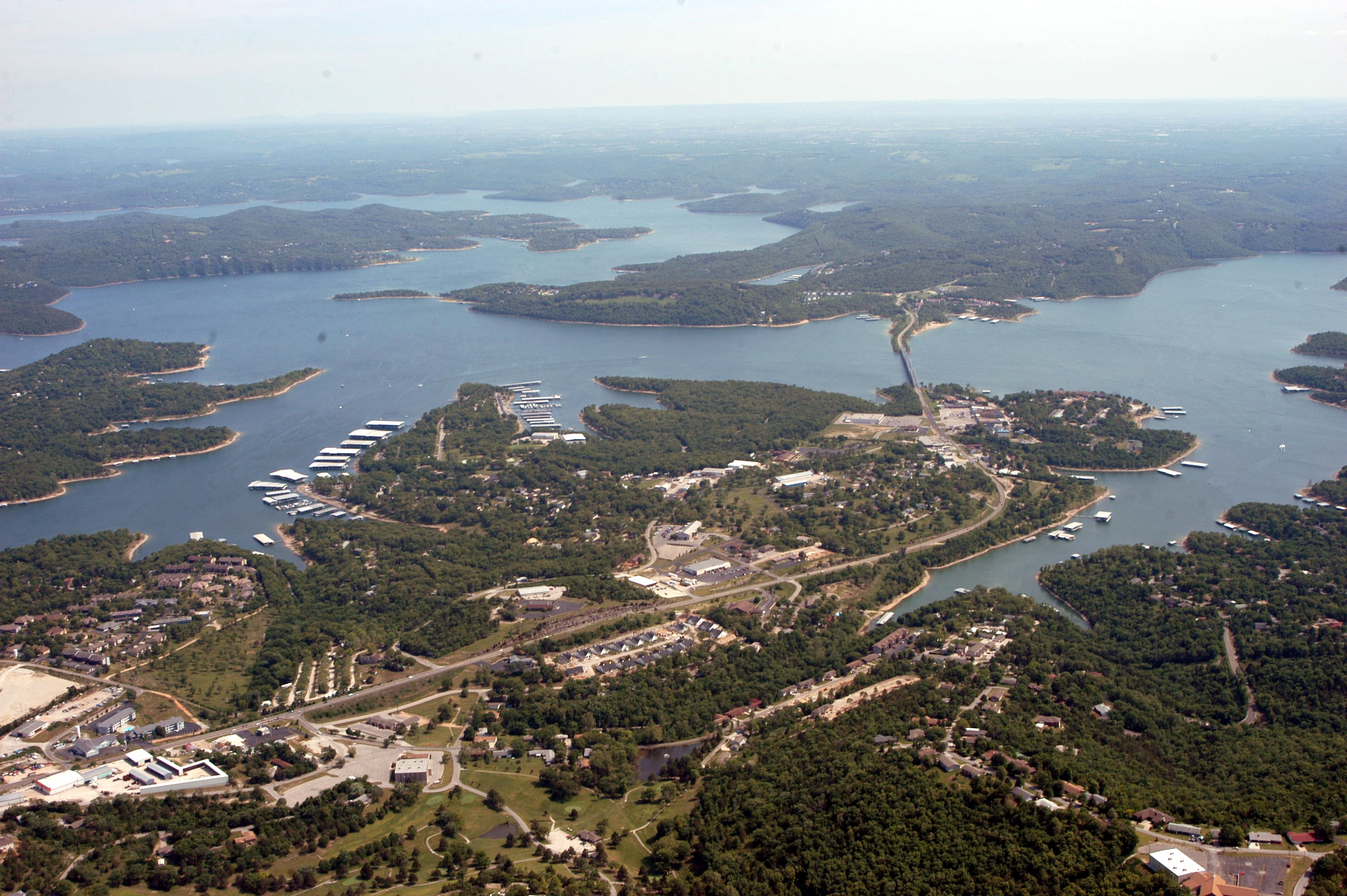 Crappy Aerial Photo of the downtown area of Kimberling City with DD Pennensula and Blue Eye in the distant background